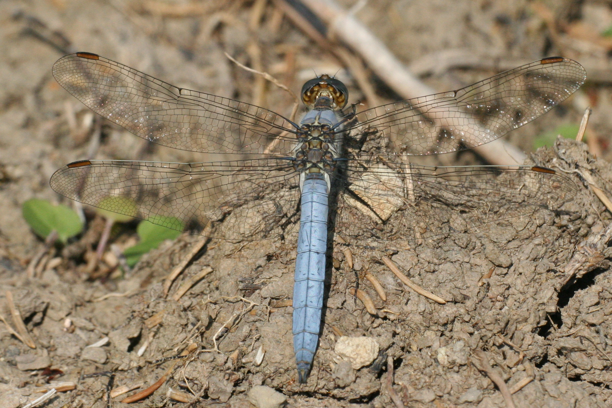 Male Brown Skimmer dragonfly (Orthetrum brunneum), photographed in Weinsberg